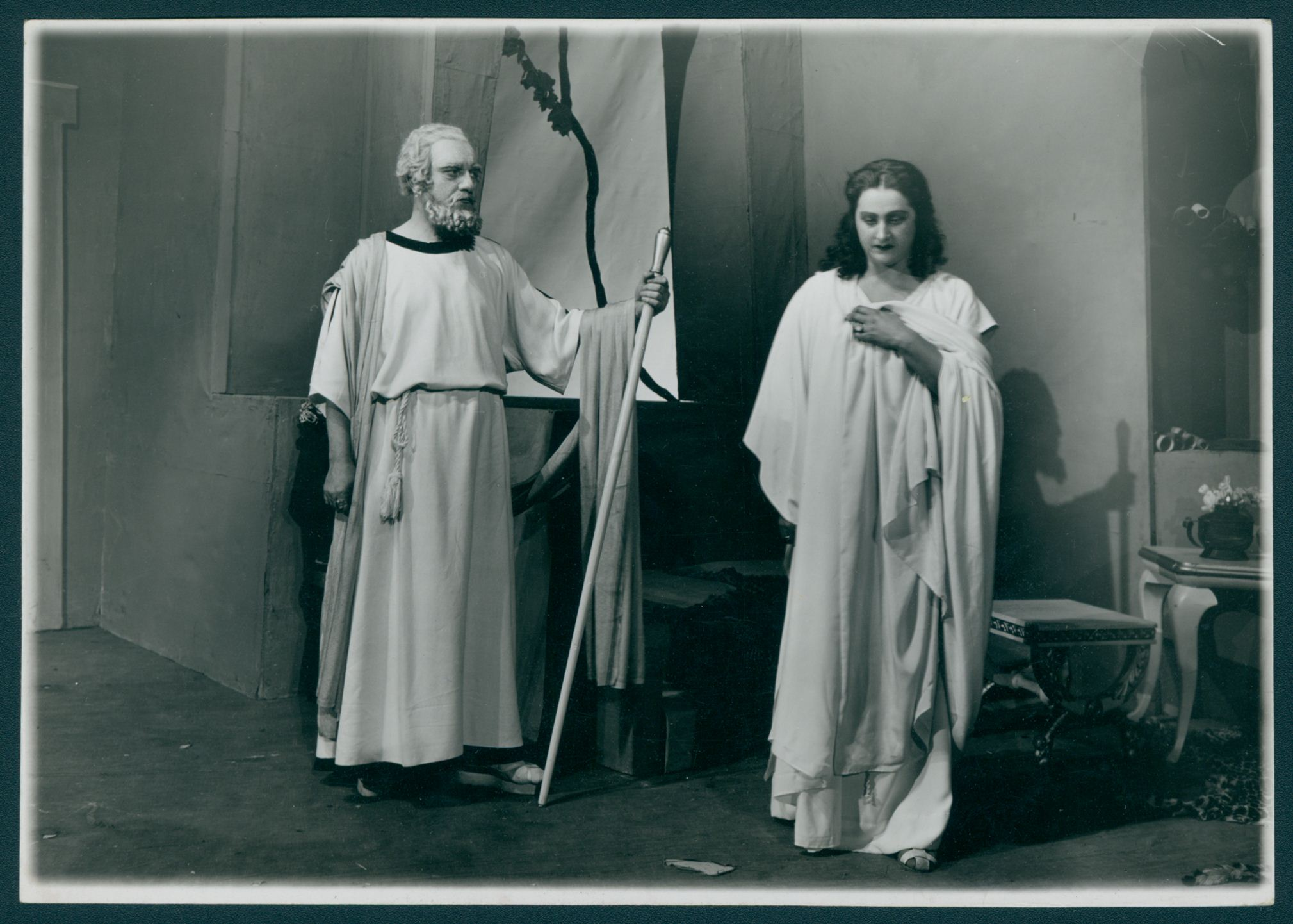 Bulgarian actress Petya Gerganova, playing Hero in the tragedy " The Waves of Sea and Love" by Franz Grillparzer, director Nikolay O. Masalitinov